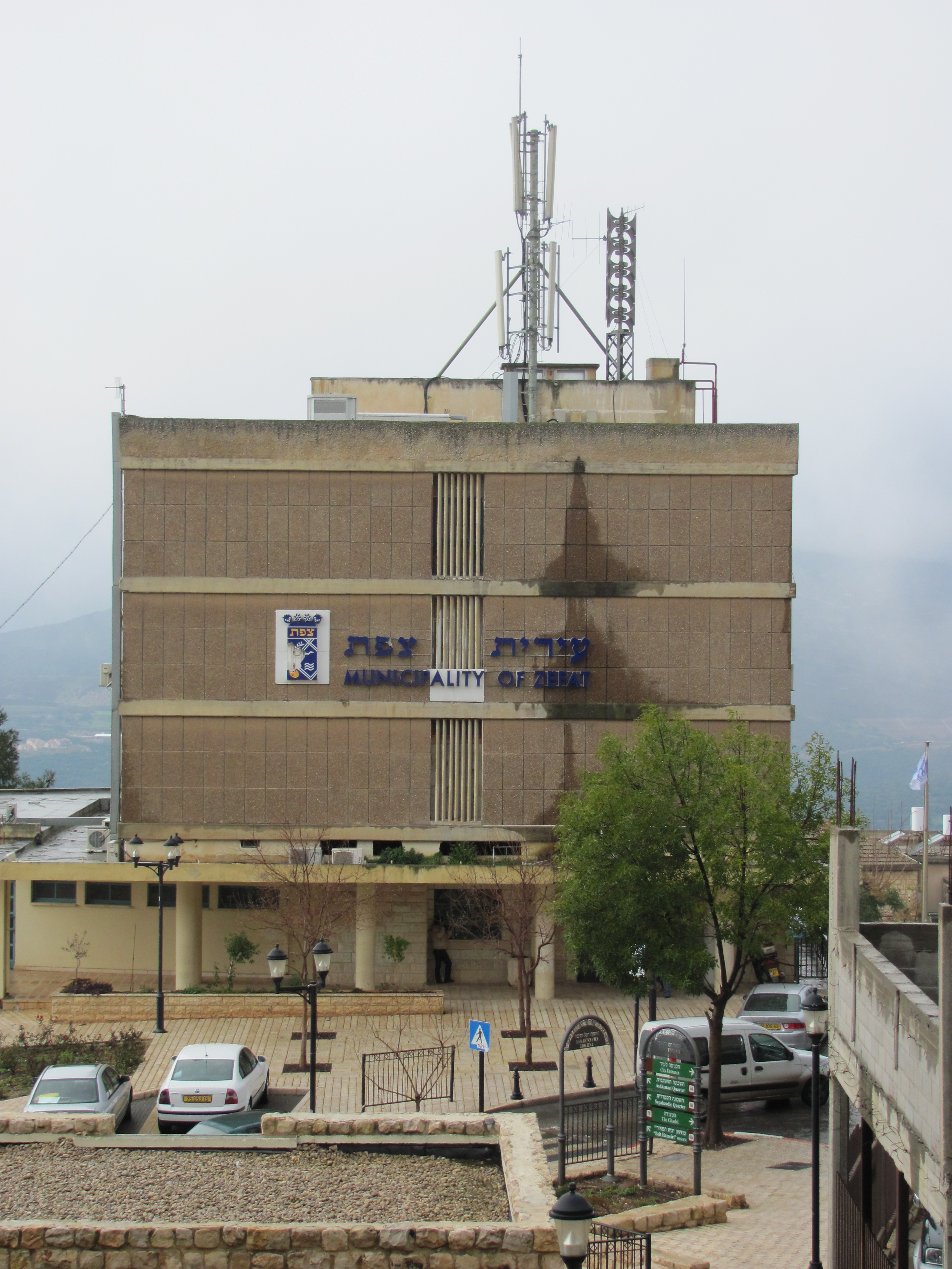 Sefad city hall.